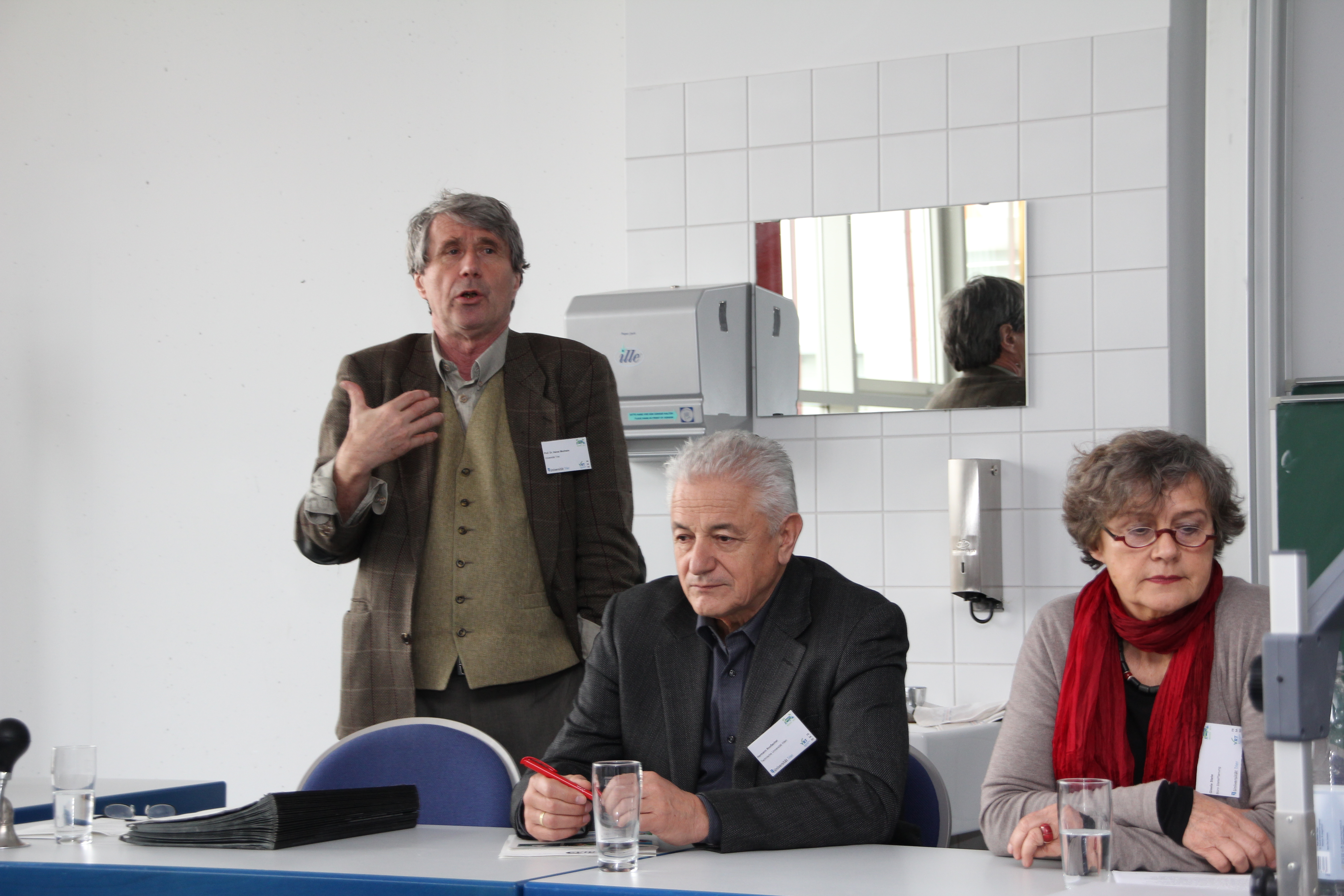 Prof. Heiner Monheim (left) and Prof. Hermann Knoflacher (middle) during the BUVKO conference at University of Trier